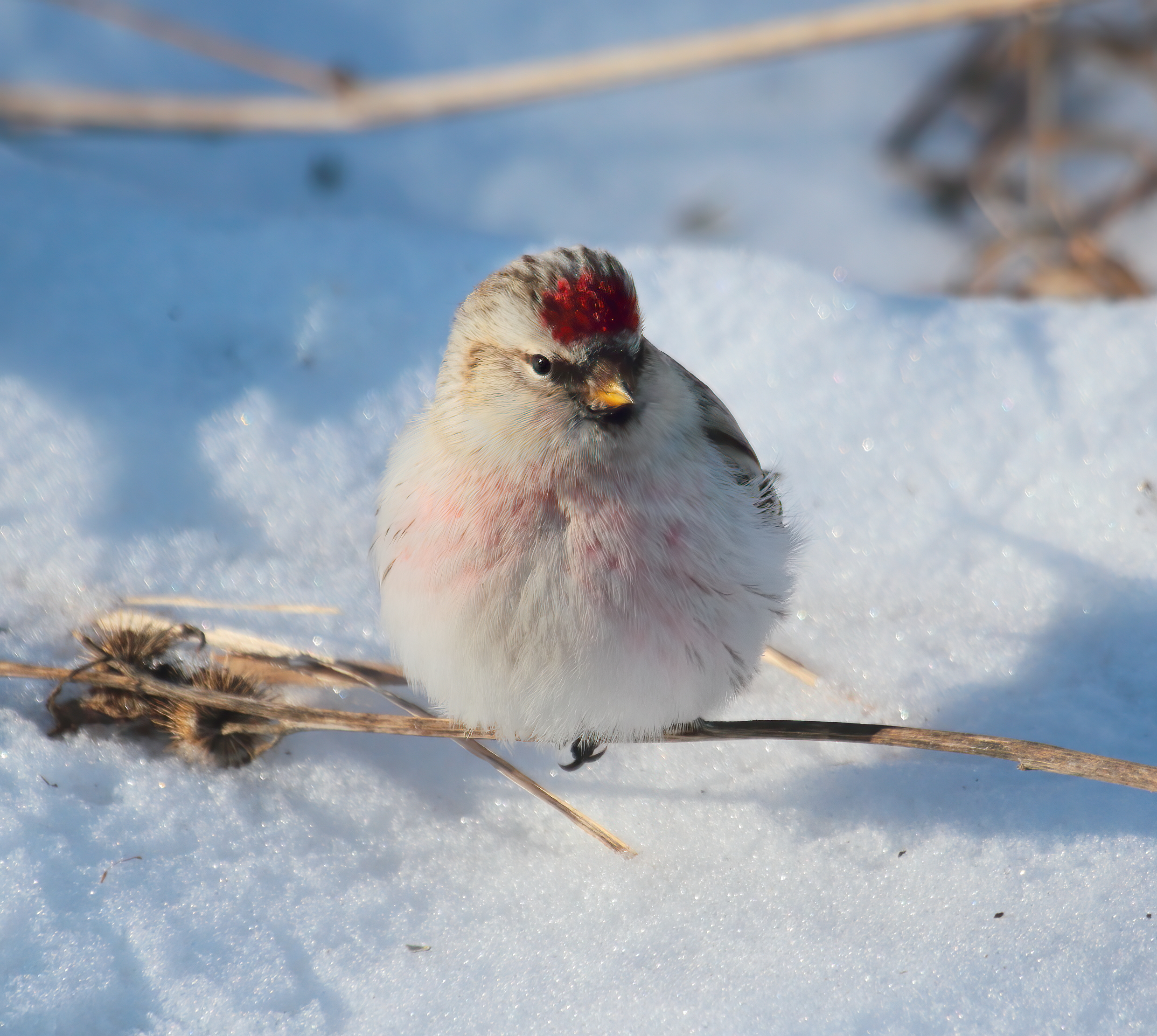 Arctic Redpoll, Cap Tourmente National Wildlife Area, Quebec, Canada.